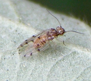 A bark louse of species Ectopsocus petersi.